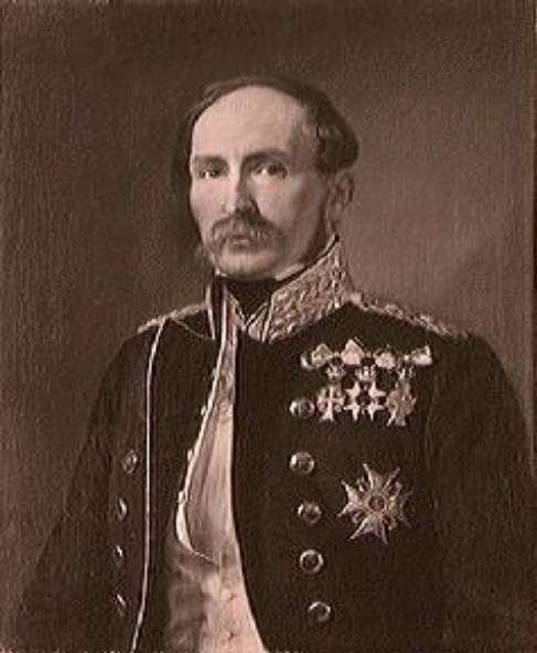 Peter Frederik, Steinmann (1812-1894)